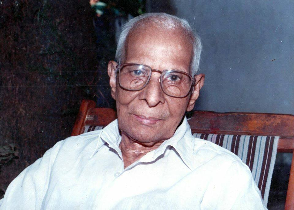 Portrait of eminent translator into Malayalam of Bengali and Hindi Literature, K. Ravi Varma